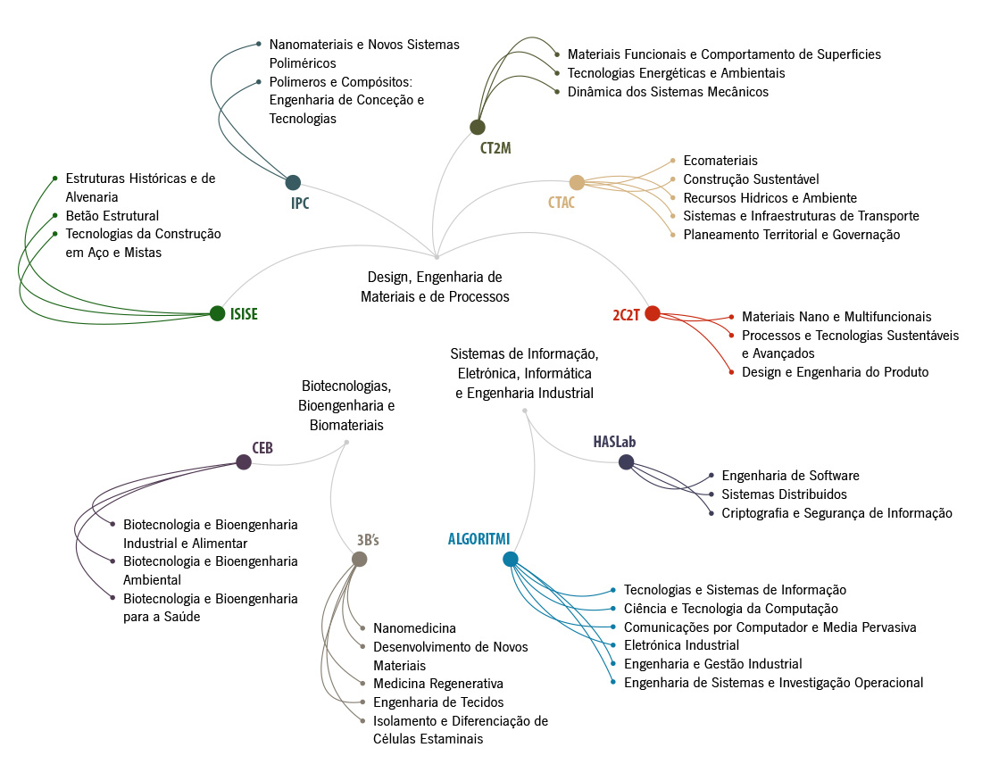 Centres and ​Research Areas of the School of Engineering of the University of Minho